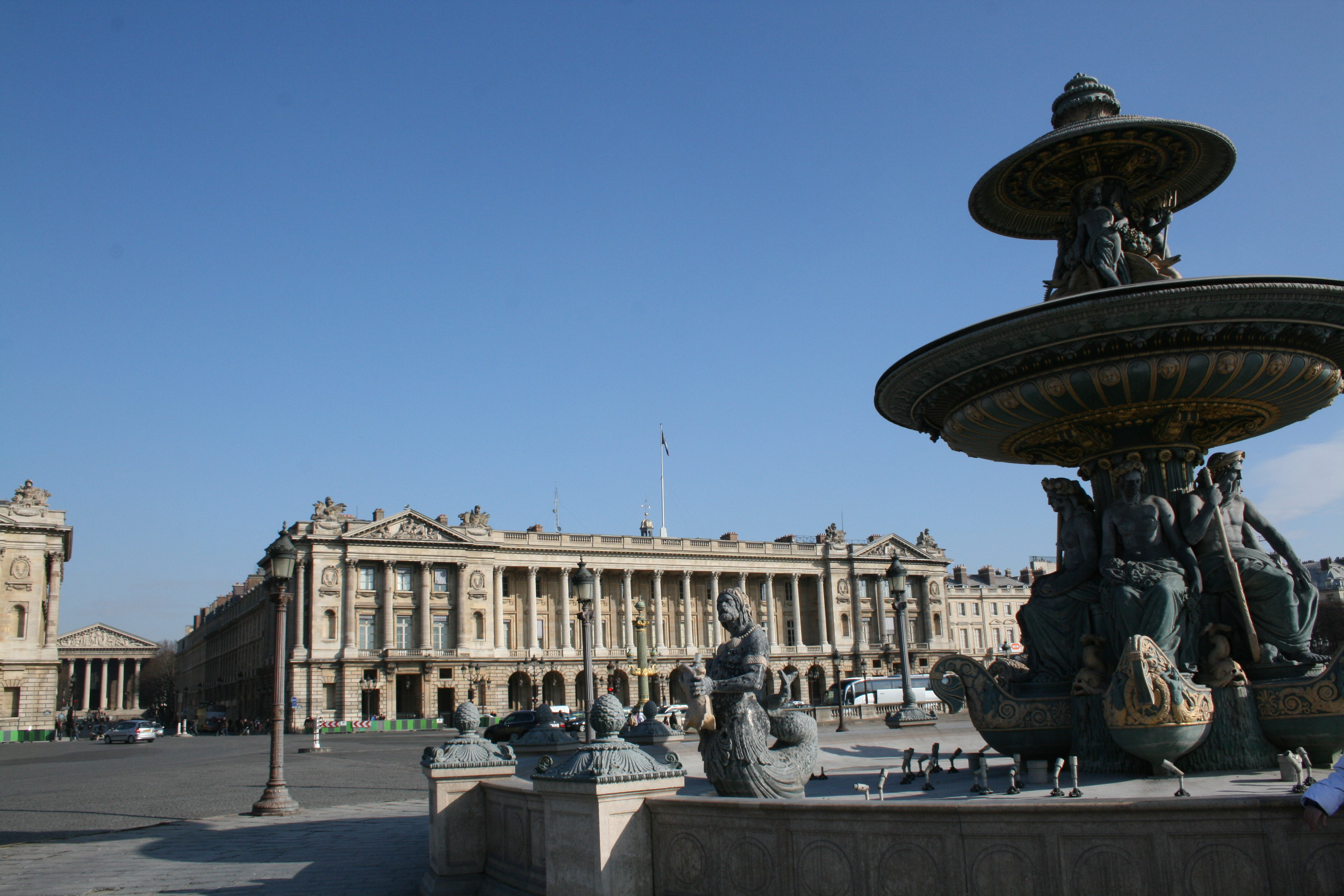 Fountain of the Concorde Square, Paris, France